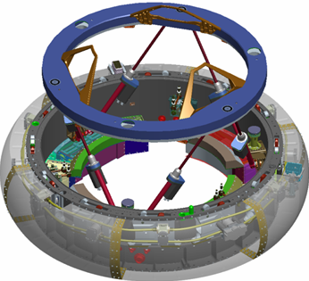 ILIDS Assembly Extended Configuration CAD drawing